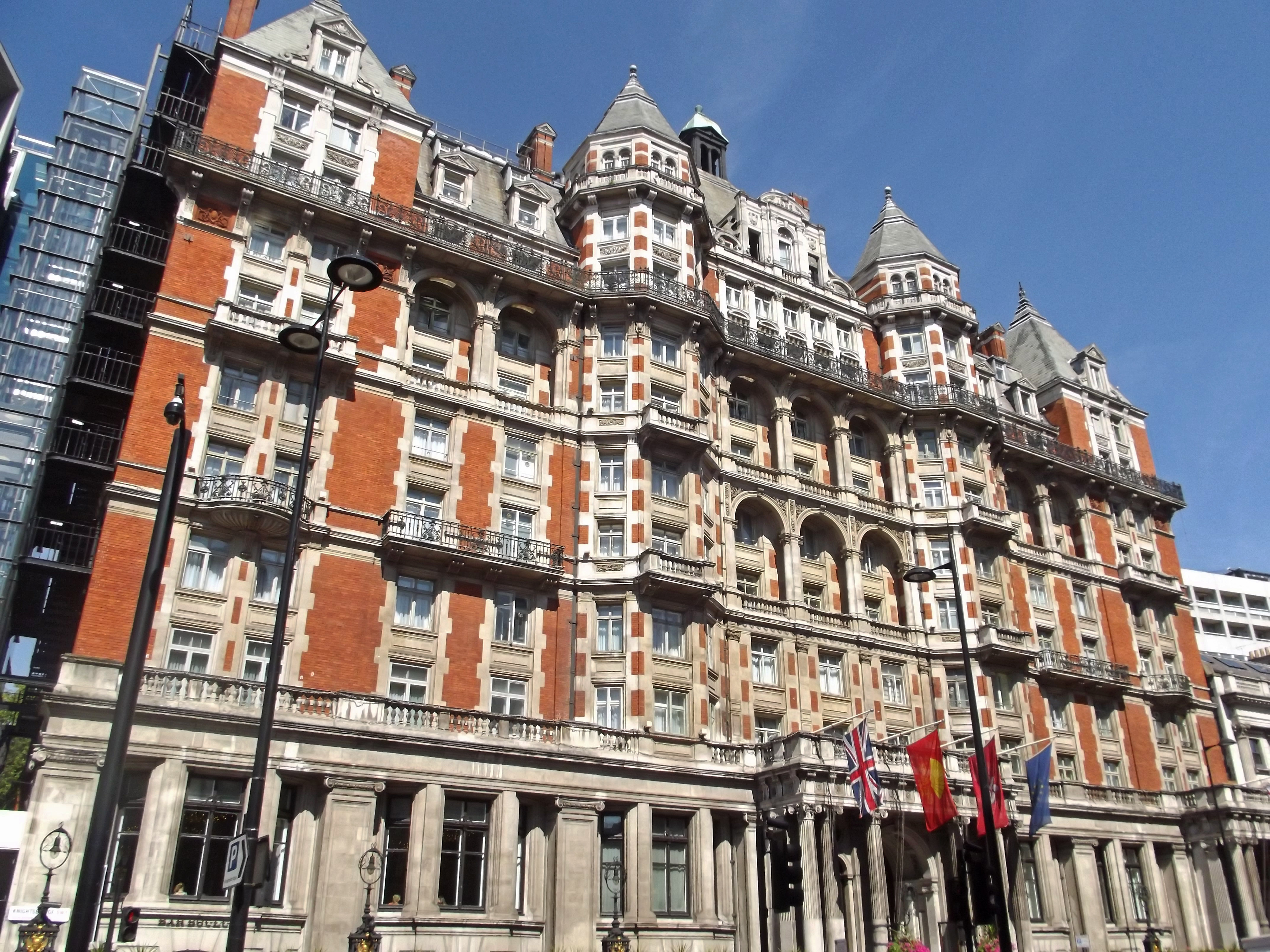 Seen in Knightsbridge in the City of Westminster is the Mandarin Oriental Hyde Park Hotel. The Mandarin Oriental Hyde Park, London is a five-star hotel at Knightsbridge in the City of Westminster in London. It is a historic Edwardian-style building with 11 floors and a height of 41 m (134 ft). It was originally built in 1889 as a gentlemen's club and apartment building. Damaged by a fire in 1899, it reopened after renovations in 1902 as the Hyde Park Hotel. Throughout its history, many important events were held in the hotel. The Mandarin Oriental Hotel Group purchased the Hyde Park Hotel in 1996 and the building was subsequently renovated at a cost of £57,000,000, reopening in May 2000. The Mandarin Oriental Hyde Park, London has 173 rooms and 25 suites. It operates three acclaimed restaurants: the Mandarin Bar, Bar Boulud, and Dinner by Heston Blumenthal. Amenities include a spa, fitness centre, and events spaces. The full view from the other side of the road.